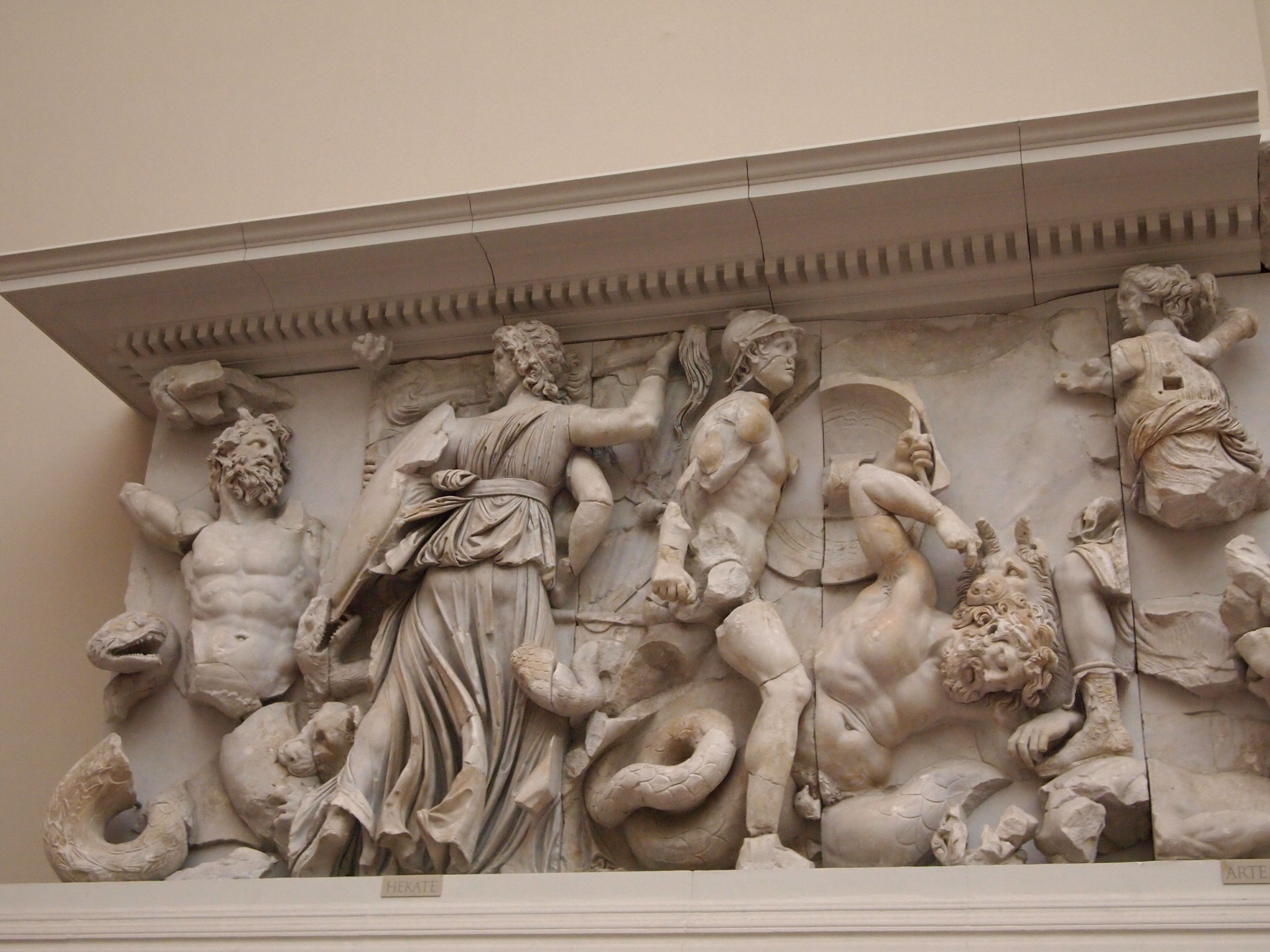 Hecate fights against Klytios; Artemis against Otos